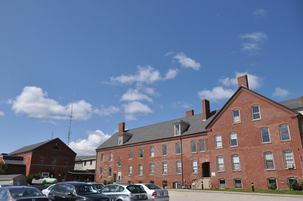 Strafford County Farm, Dover, New Hampshire; the (former) almshouse on the right, the (former) jail on the left.